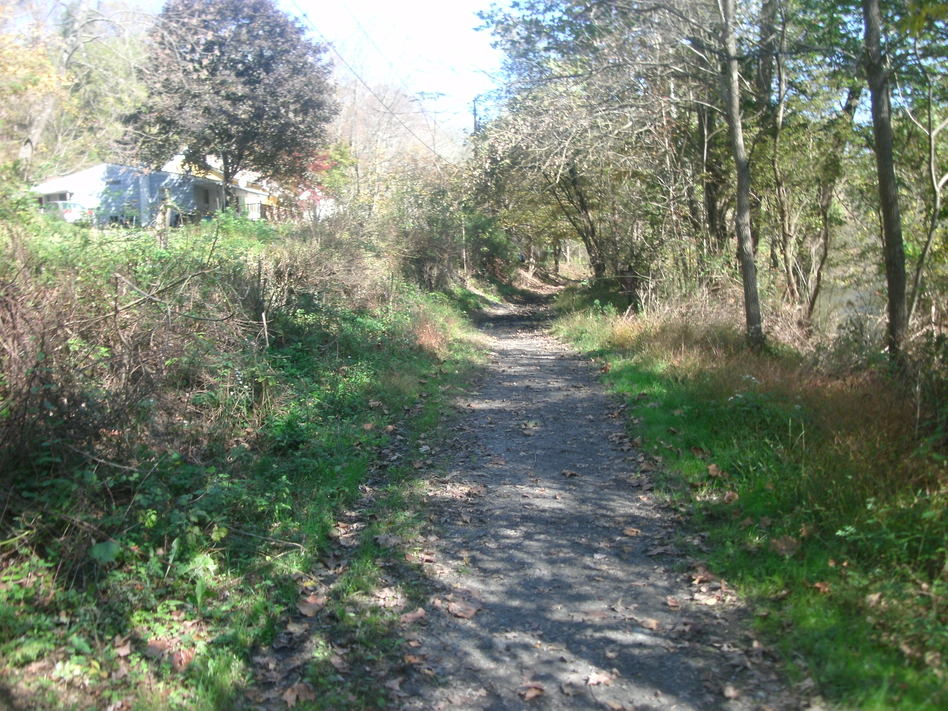 The site of the former Marksboro station along the abandoned alignment of the New York, Susquehanna and Western Railroad in Marksboro, New Jersey. The Paulinskill Valley Trail now runs along the right-of way.